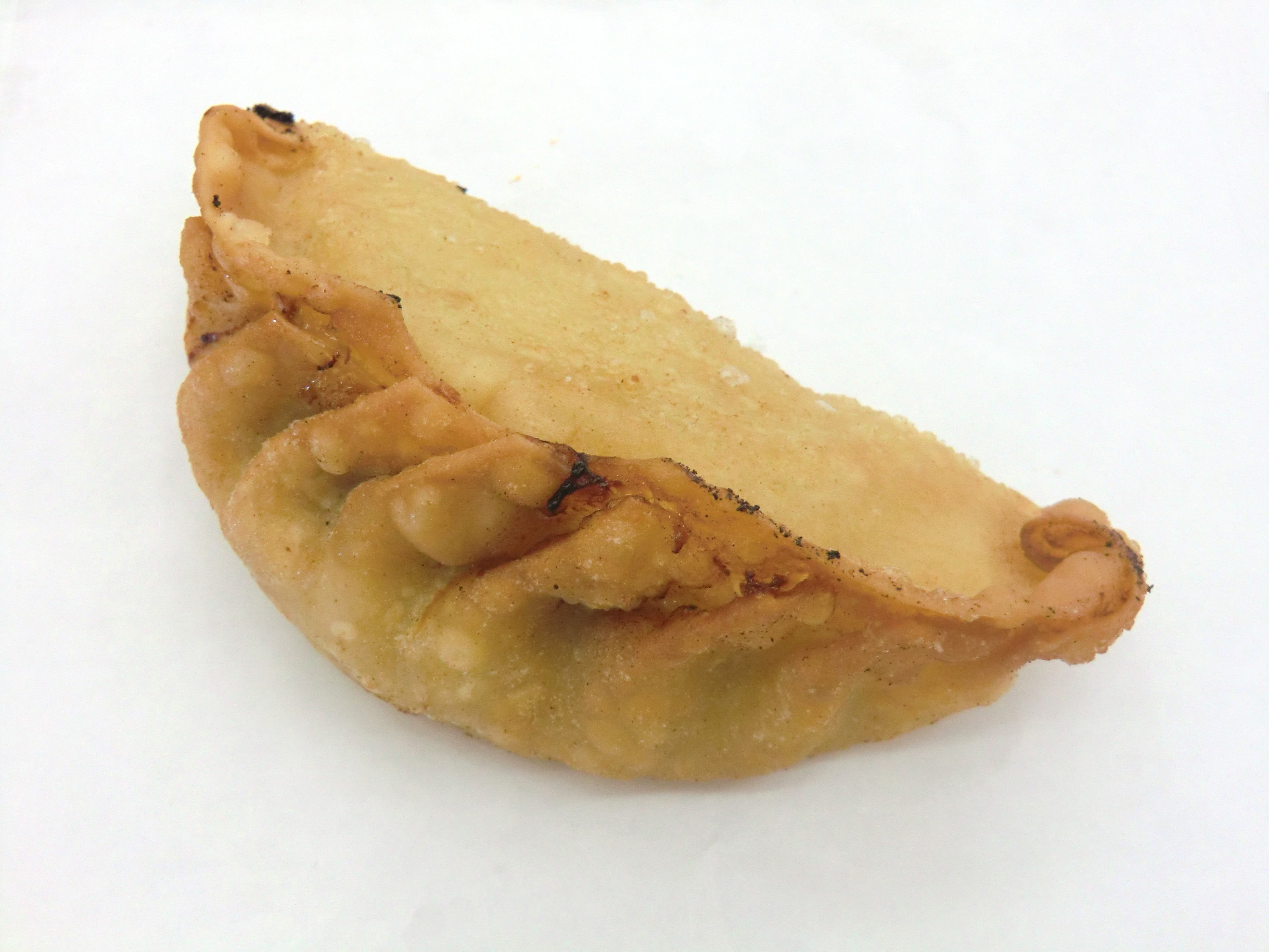 Tsu-gyoza (津ぎょうざ)